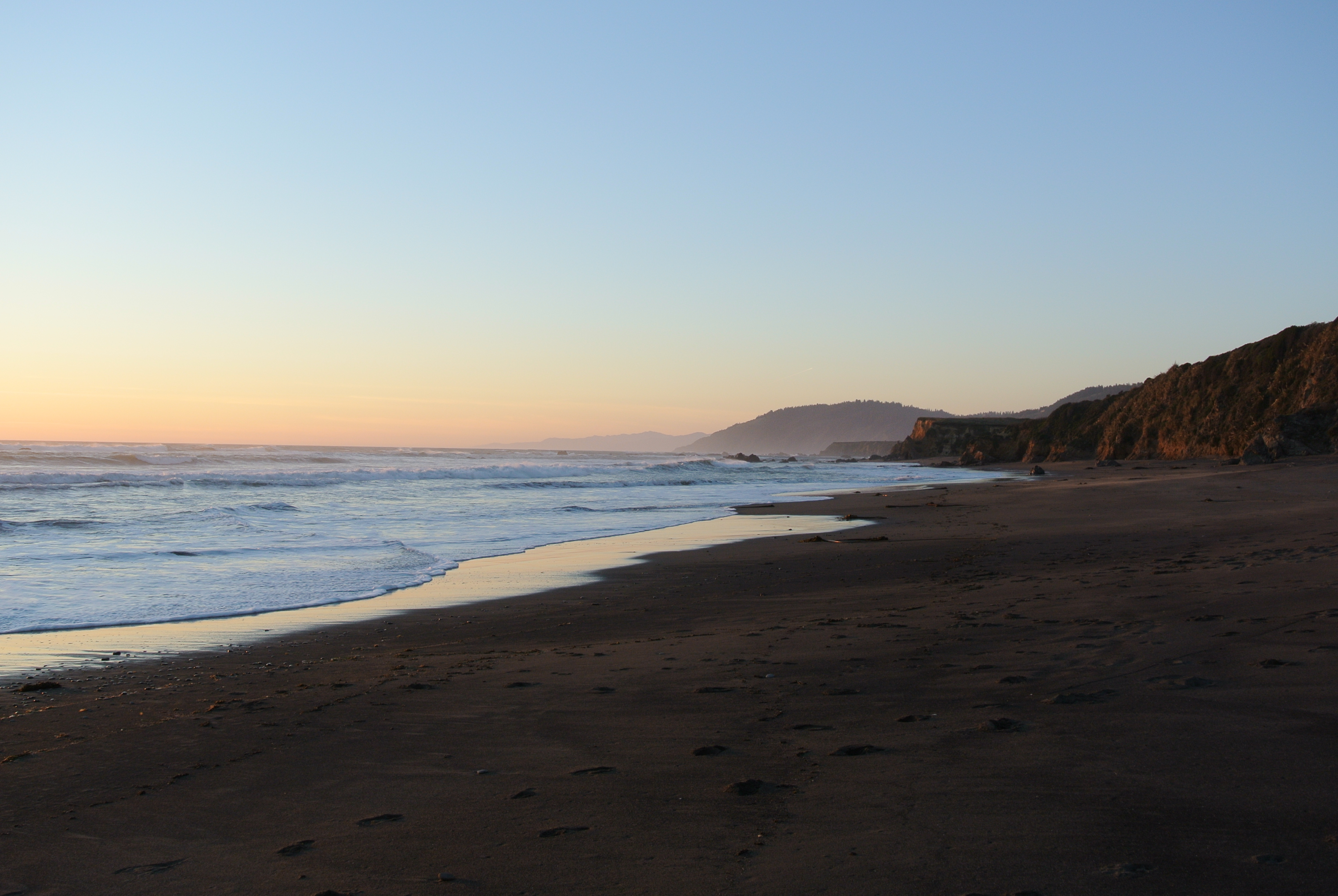 The beach by Westport, California.